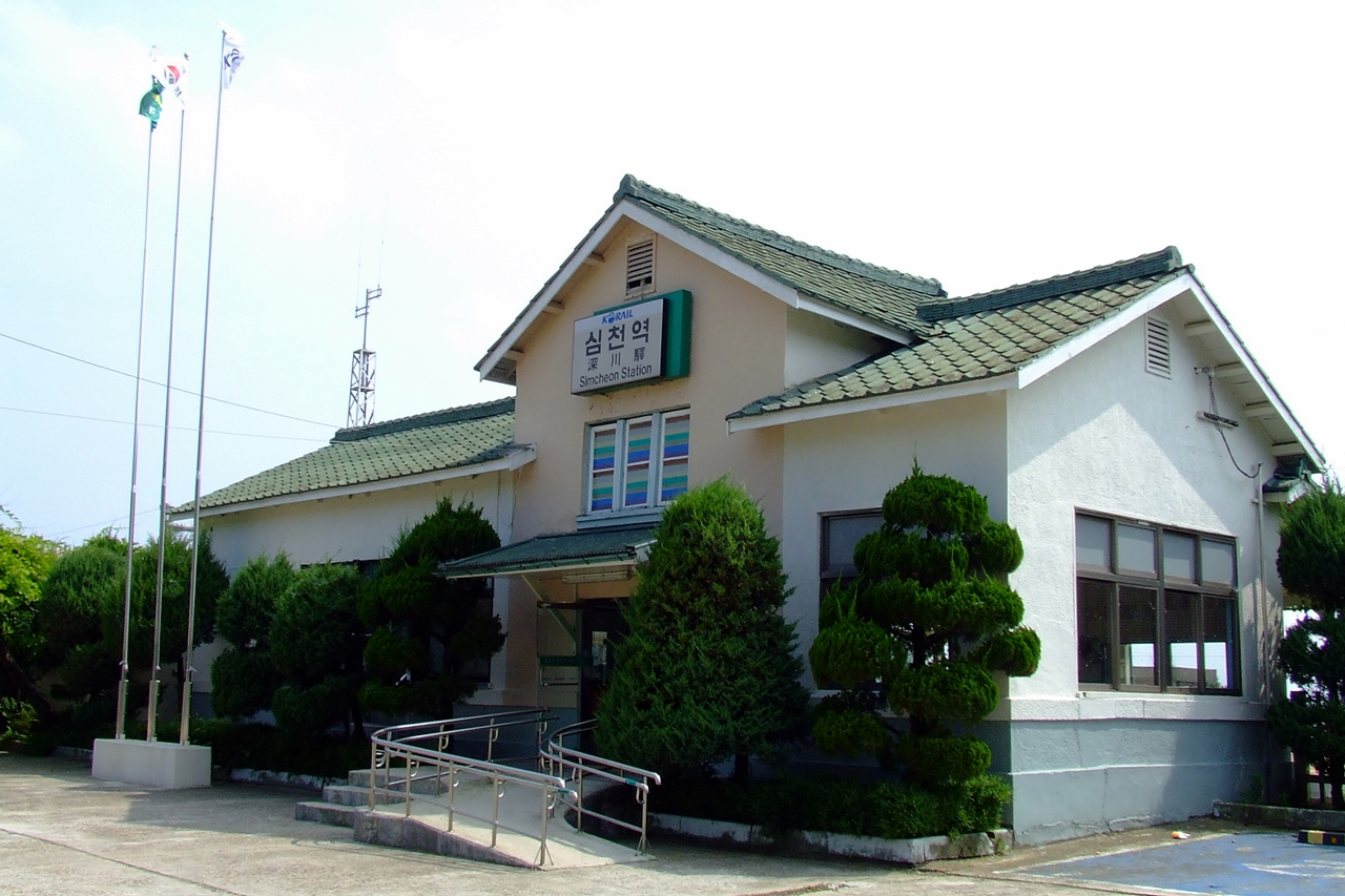 Gyeongbu Line, Simcheon Station